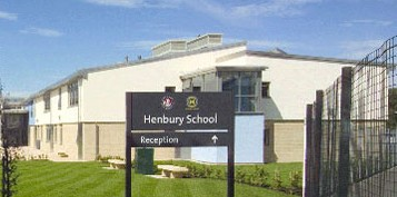 Outside of the rebuilt Henbury Secondary School located in Bristol, England.